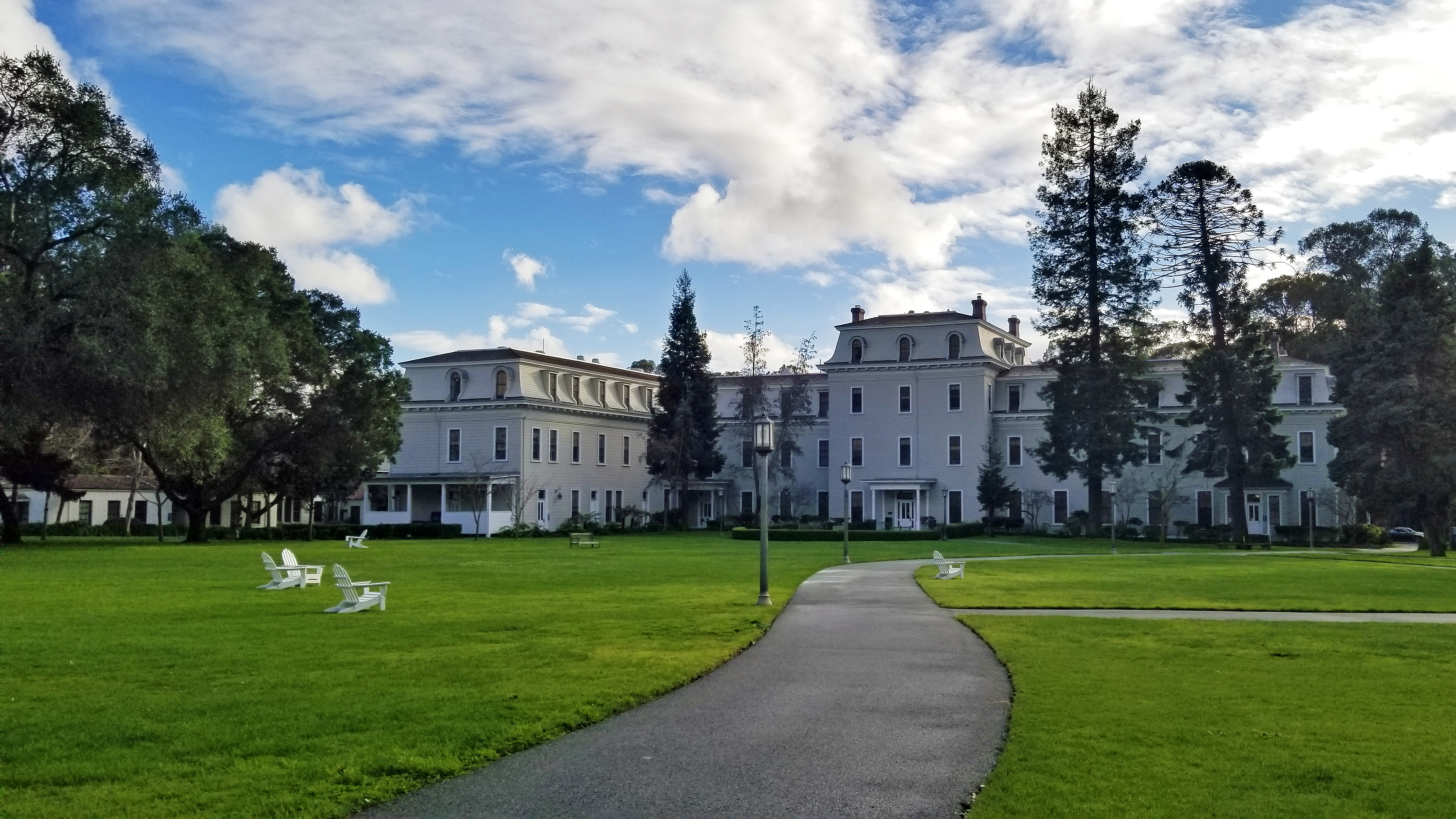 View of historic Mills Hall taken from Holmgren Meadow on the Mills College campus in Oakland, California.